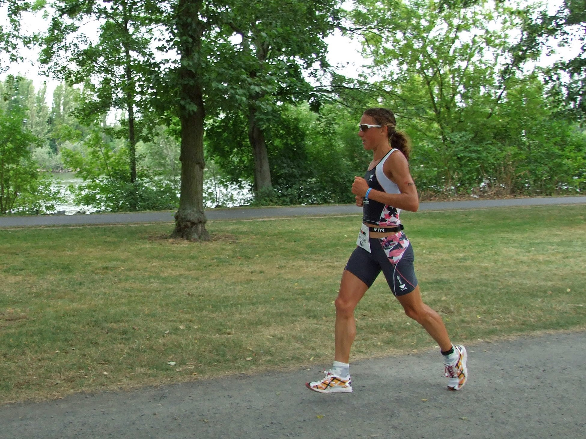 Chrissie Wellington, leading woman at race, Frankfurt Ironman 2008